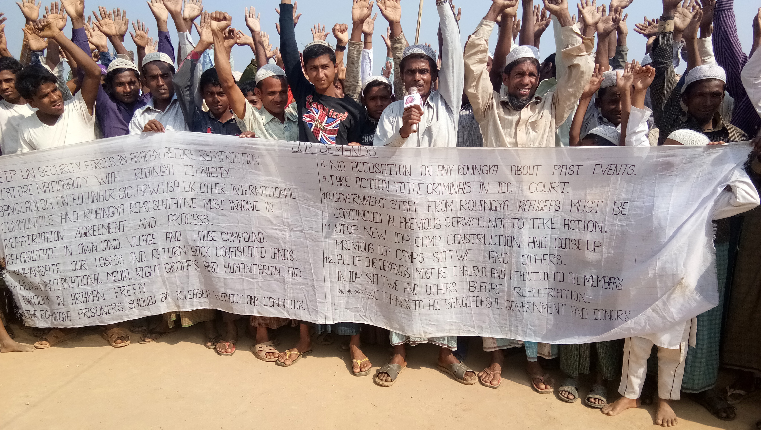 Rohingya refugees in Cox's Bazar, Bangladesh carrying a piece of cloth with demands in protest of repatriation to Myanmar, which many in the community see as a dangerous return trip.